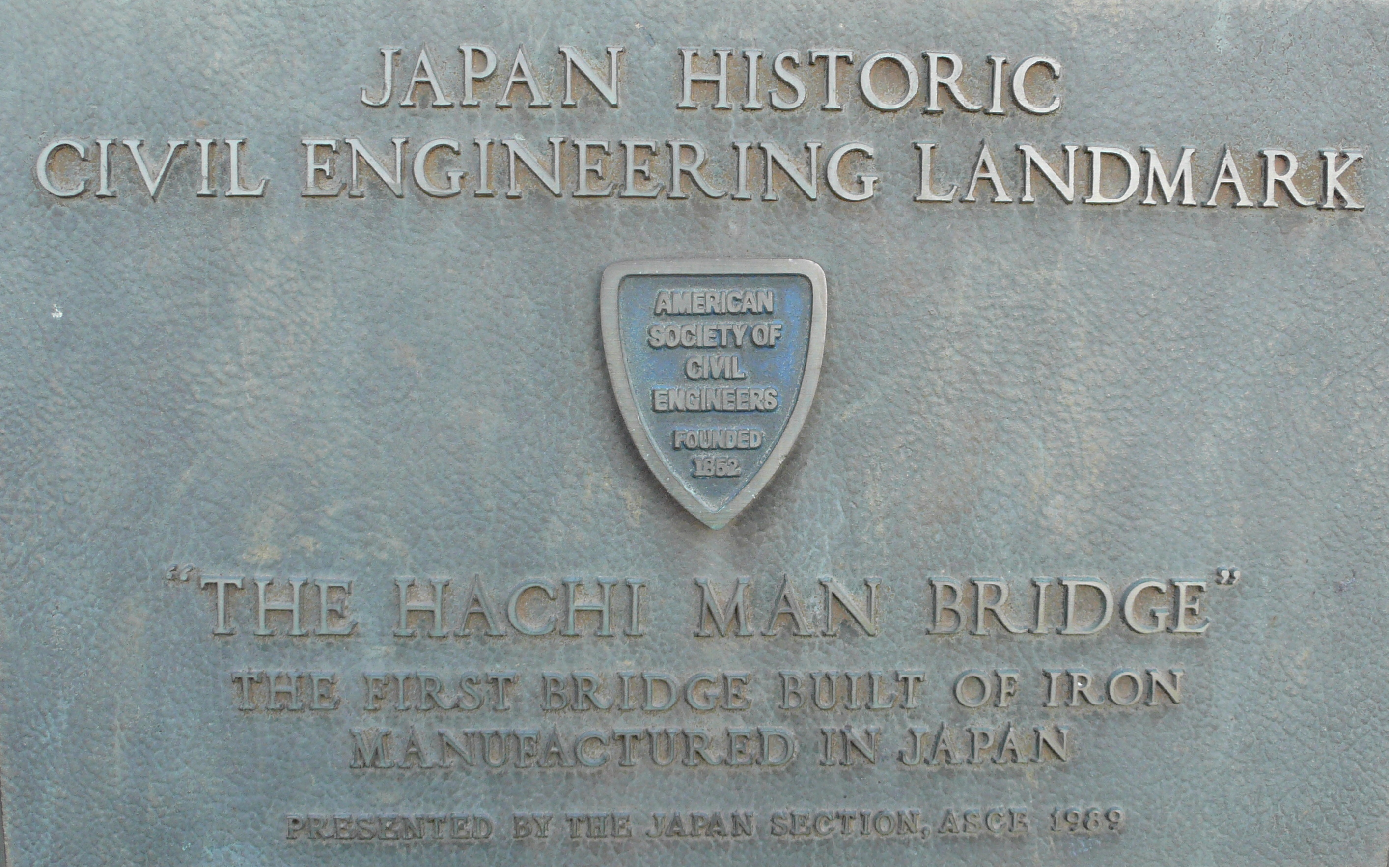 Hachiman-bashi Bridge